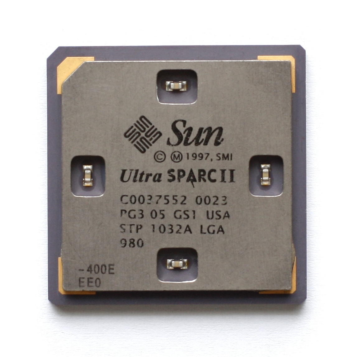 CPU SUN UltraSparc 2.